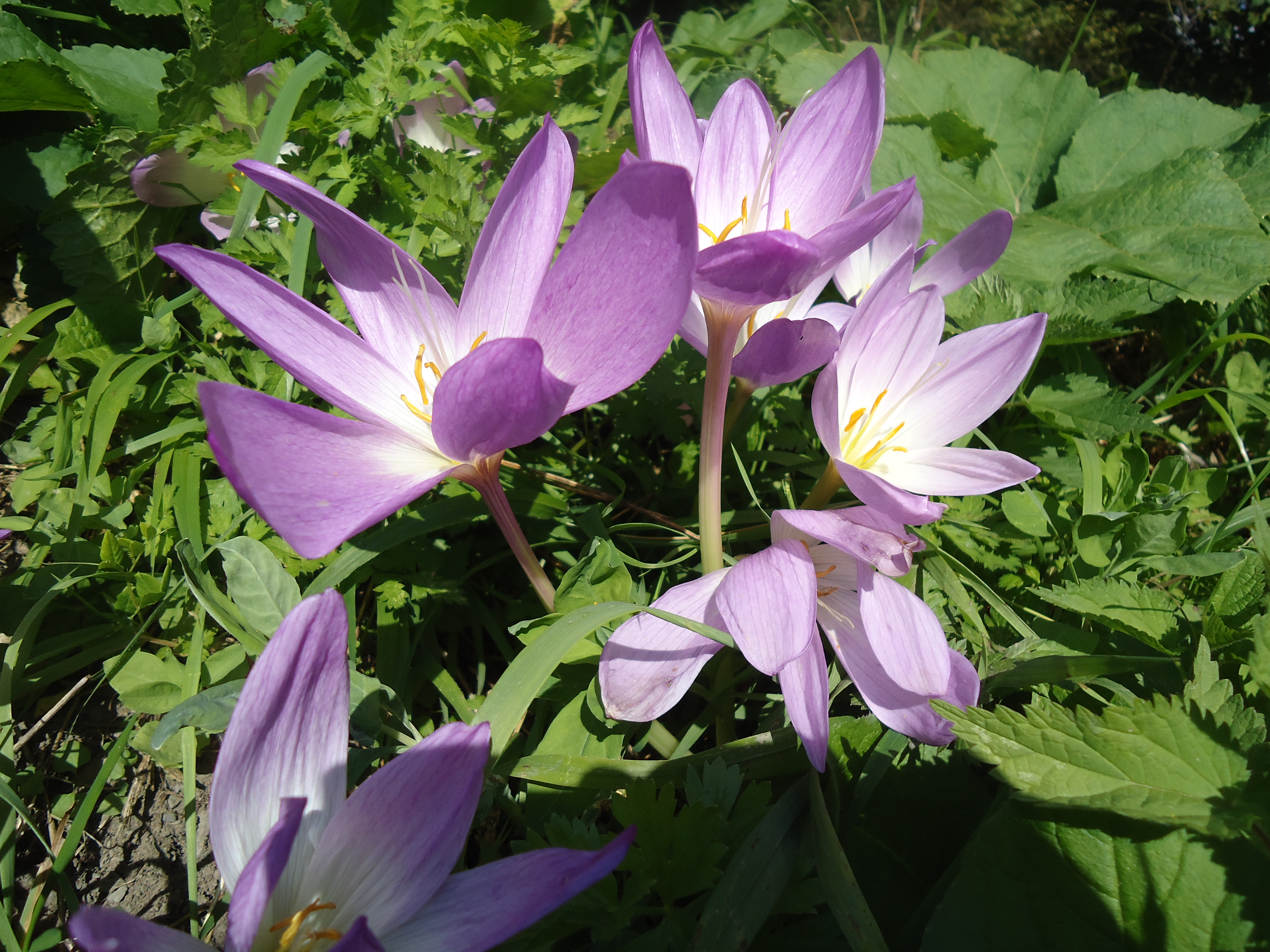 Colchicum speciosum Steven. Rare species of an autumn crocus. It is included in the Red List. Engelmanova a glade in the territory of Caucasus Biosphere Reserve. This image is related to the protected area of Russia number 2300002